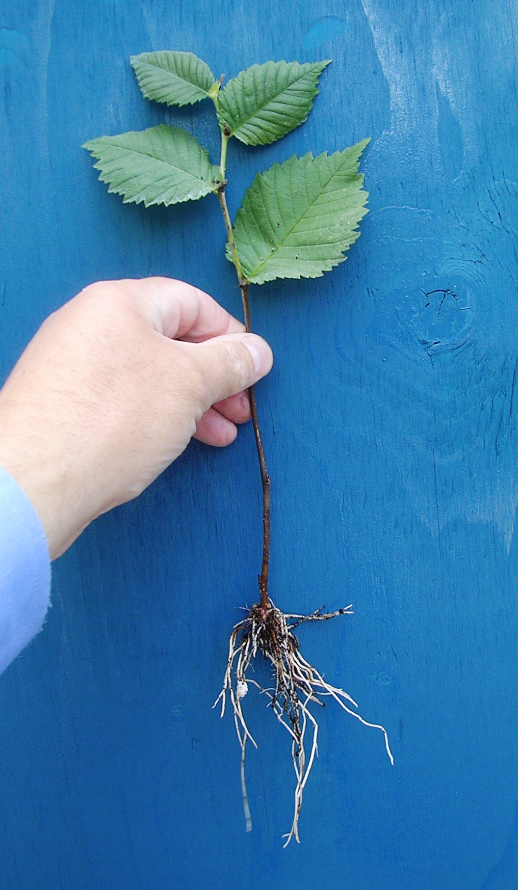 Photo of a rooted cutting of Ulmus laevis. Photo taken by author, July 2008